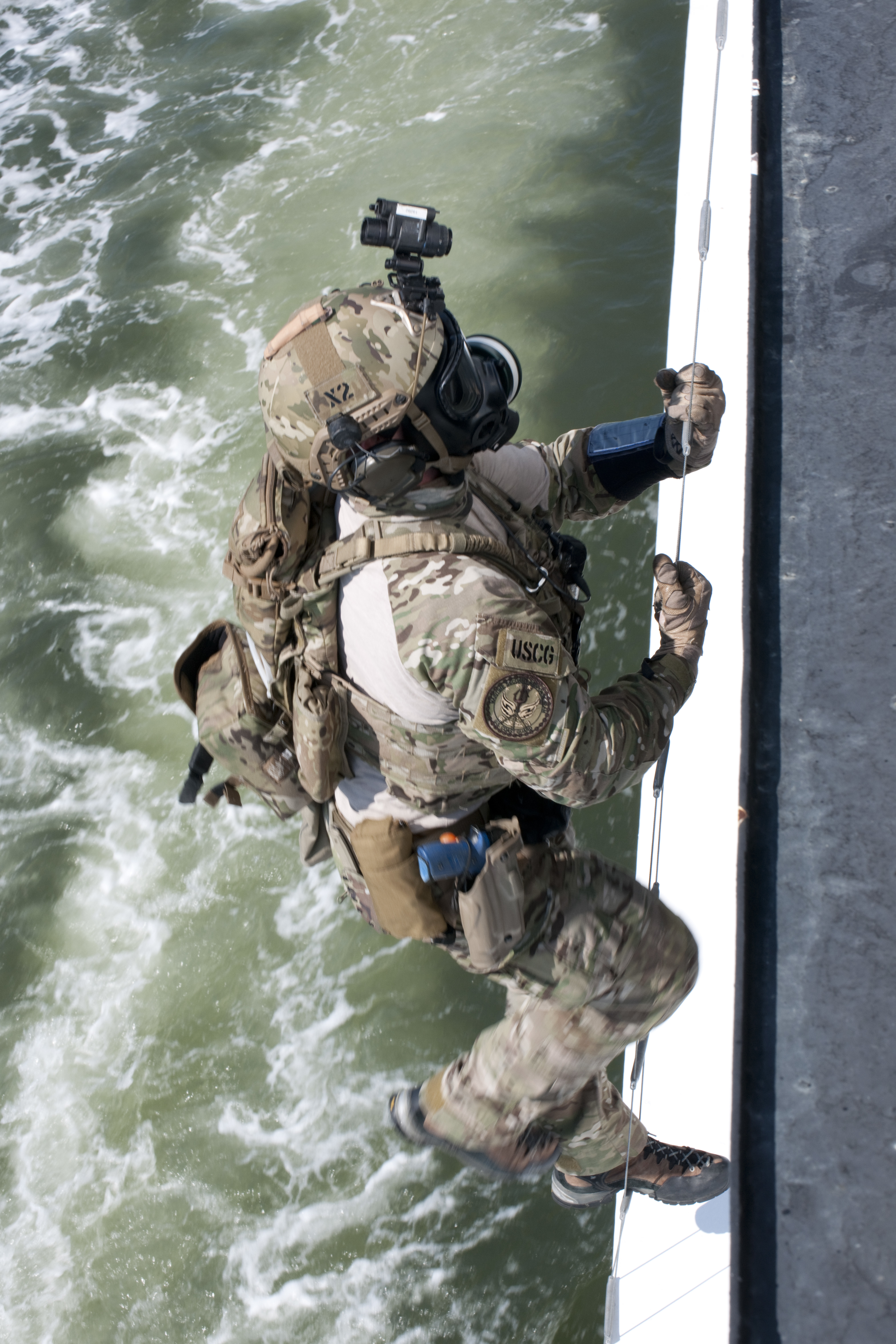 A Coast Guard Maritime Security Response Team member climbs a hook ladder May 4, 2015, to board the civilian passenger ship, the Spirit of Norfolk, during a MSRT training demonstration in the Chesapeake Bay near Naval Station Norfolk, Via. The MSRT is a specialized response team with advanced counter-terrorism skills and tactics. (U.S. Coast Guard photo by Petty Officer 3rd Class David Weydert) Unit: U.S. Coast Guard District 5 DVIDS Tags: Commandant; Naval Station; Charles; DHS; Norfolk; Johnson; Zukunft; MSRT; Jeh